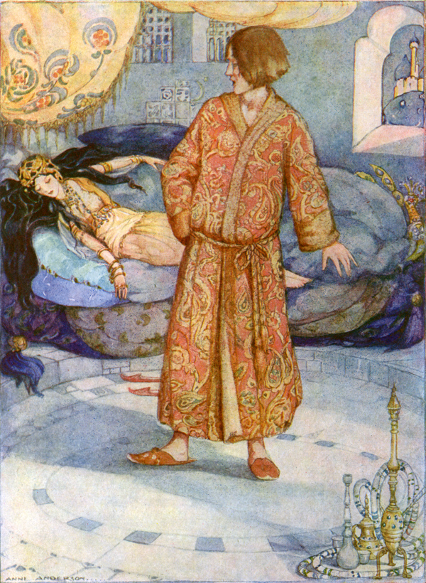 "The Flying Trunk" As soon as he was inside, it rose into the air